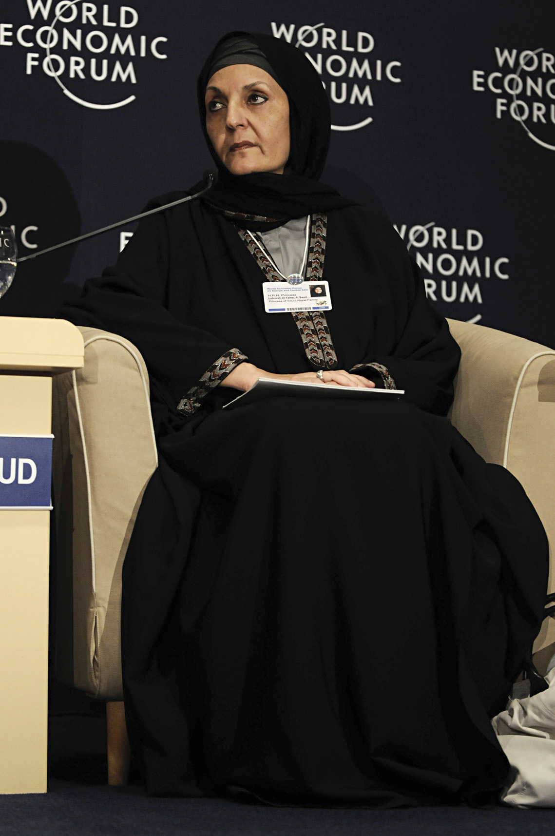 ISTANBUL/TURKEY, 31OCT08 - Princess Lolowah Al Faisal Al Saud, Princess of Saudi Royal Family at the World Economic Forum on Europe and Central Asia in Istanbul, 30 October - 1 November 2008. Copyright World Economic Forum /Photo by Serkan Eldeleklioglu-Bora Omerogullari-Ozan Atasoy